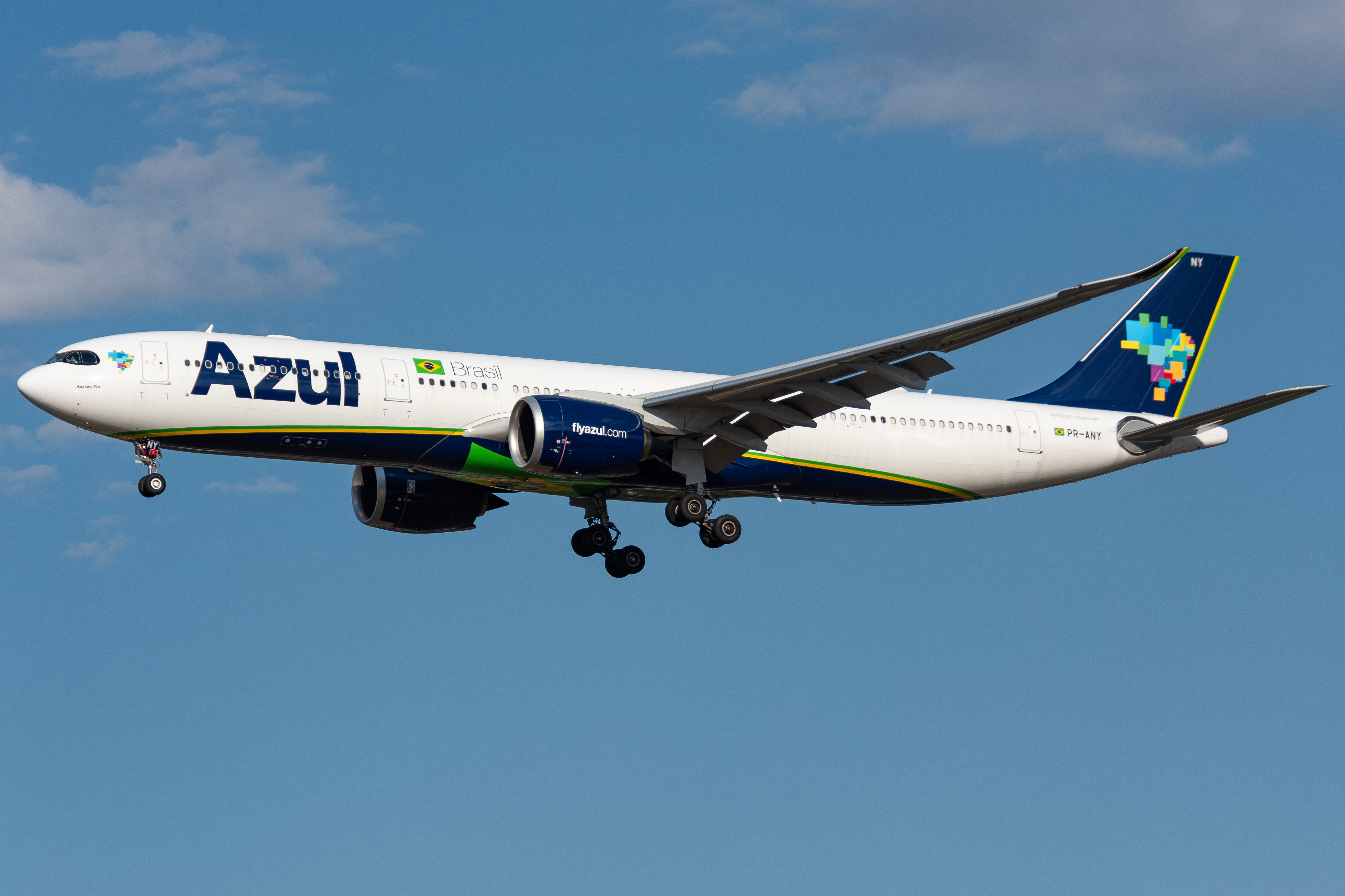 AZU9712 from Amsterdam. First visit of Azul's A339 to China? Bem vindo!